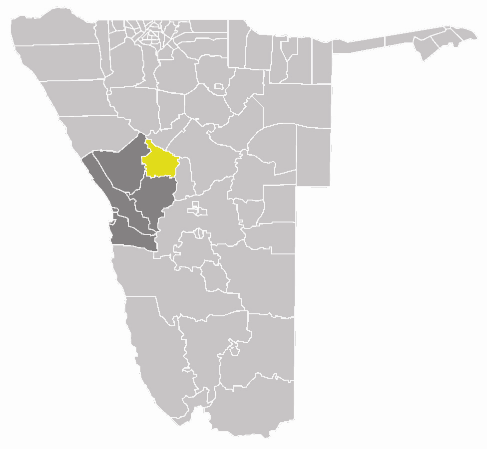 map of the Omaruru constituency within the Erongo region, Namibia